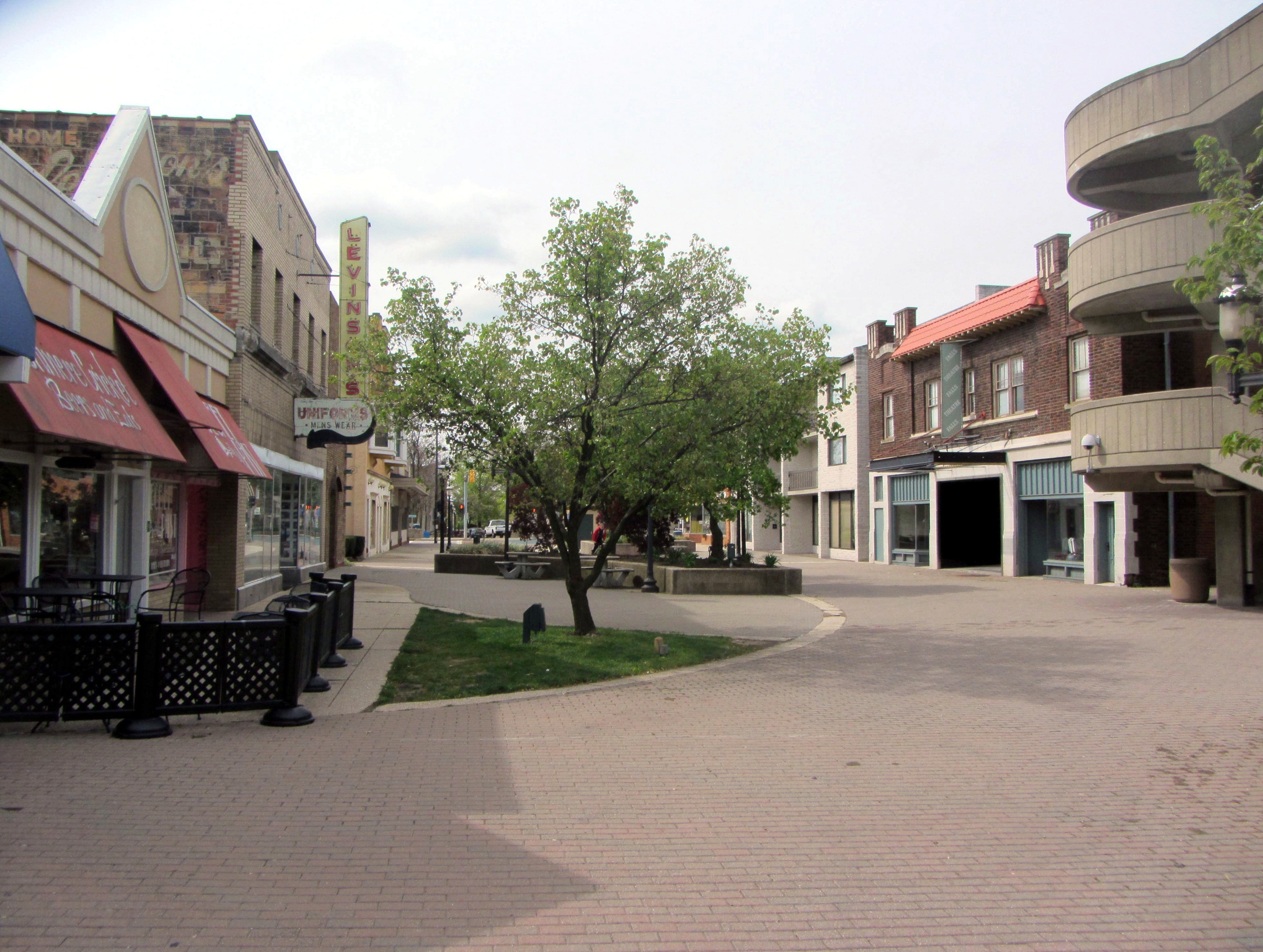 Downtown Cuyahoga Falls, Ohio, United States.